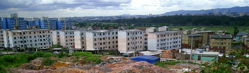 Description: picture of a lower-class housing complex (which has a legal definition of "social interest housing" in the local law) located on the East Side in São Paulo (city). Source: photography taken by me (Gabriel Fernandes) Another version can be found here